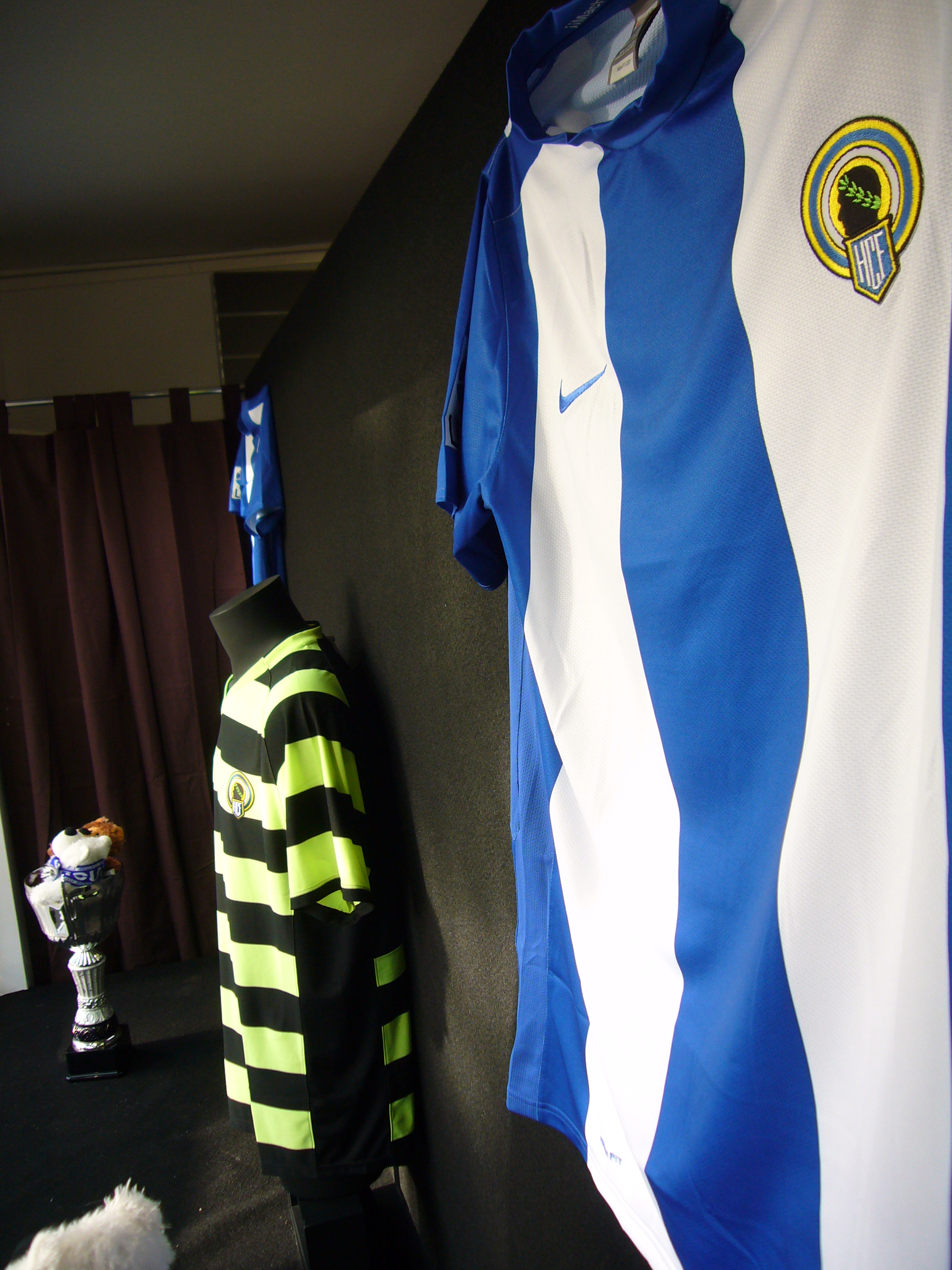 Showcase Official Hércules Store located in the José Rico Pérez Stadium. The image shows two Hércules T-shirts for the season 2010/11.